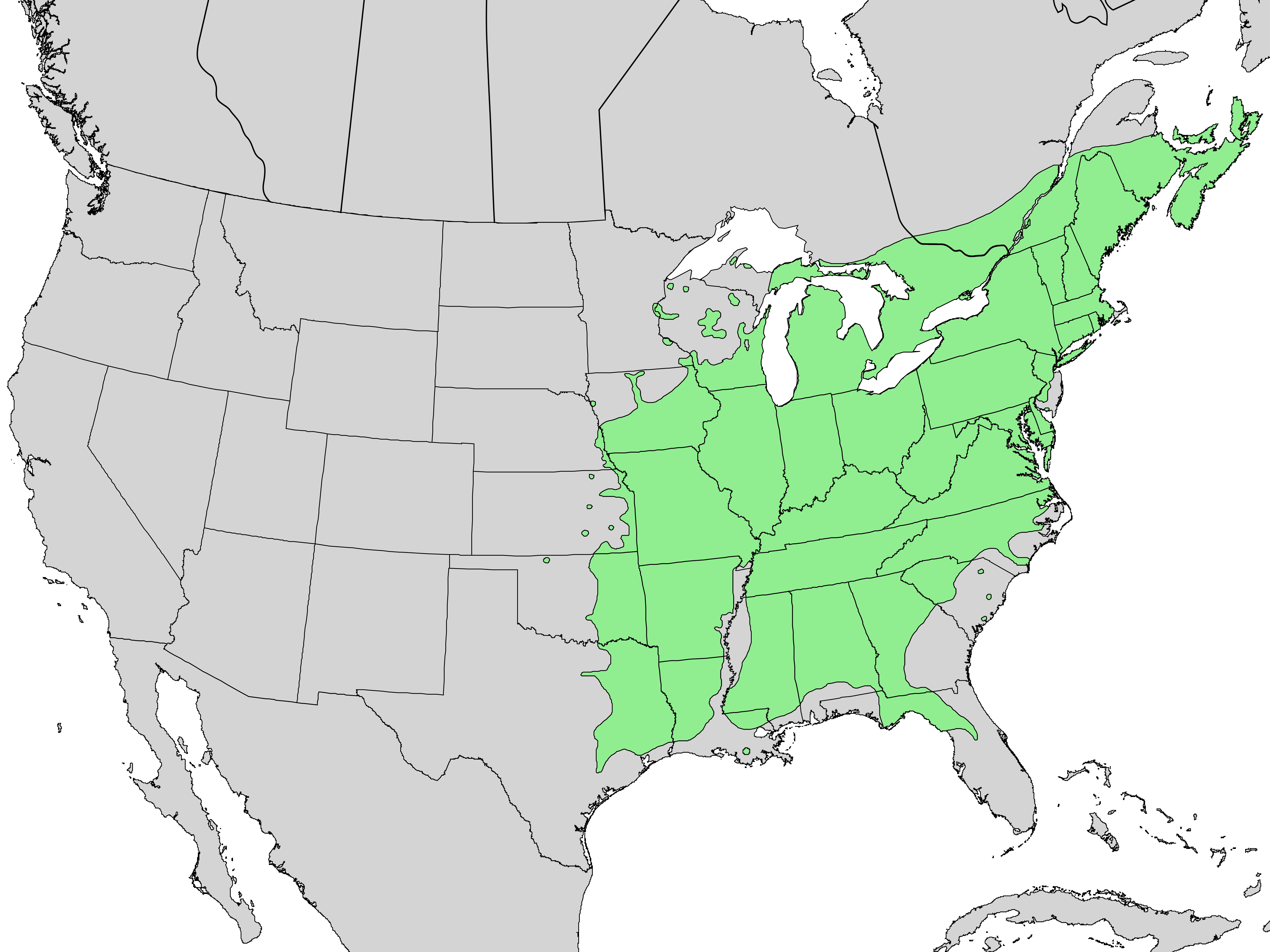 Range map of Fraxinus americana